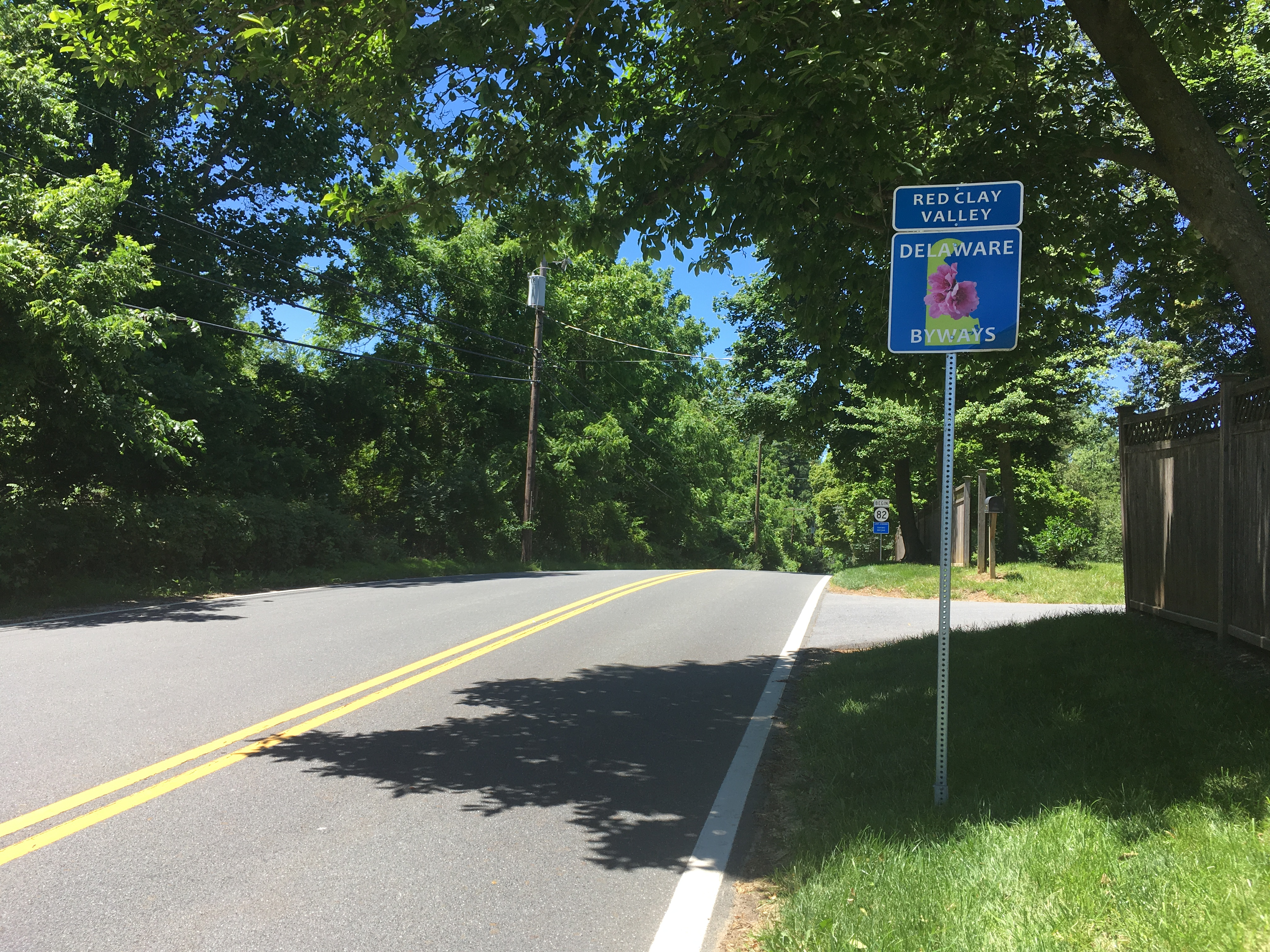 Marker for the Red Clay Scenic Byway along northbound Delaware Route 82 (Campbell Road) past its southern terminus at Delaware Route 52 (Kennett Pike) near Greenville, Delaware